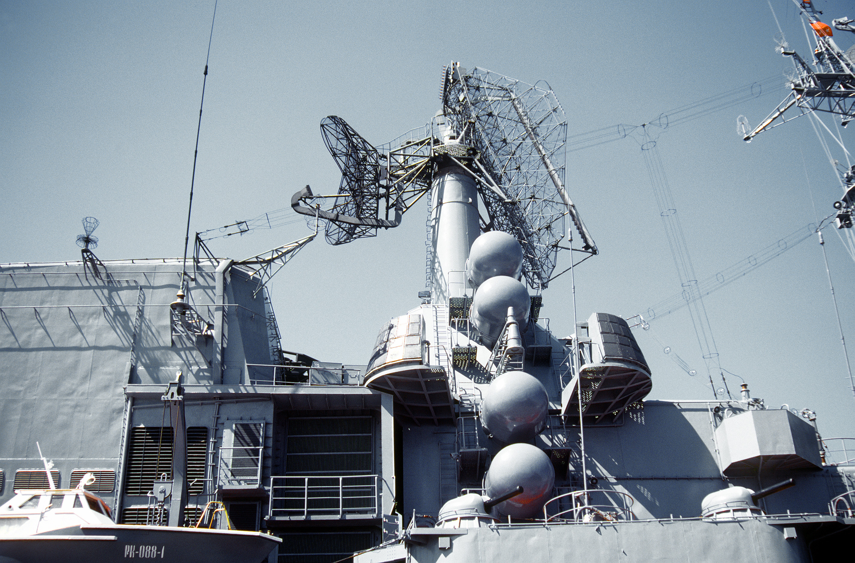 A view of four large Side Globe electronic countermeasures (ECM) radomes arranged vertically and flanked by two Rum Tub ECM radomes aboard the Soviet Slava class guided missile cruiser Marshal Ustinov (CG-088). Atop the superstructure is the Top Pair (Top Sail and Big Net) surveillance radar. The Marshal Ustinov is in port with another surface combatant and an oiler for a five-day goodwill visit.